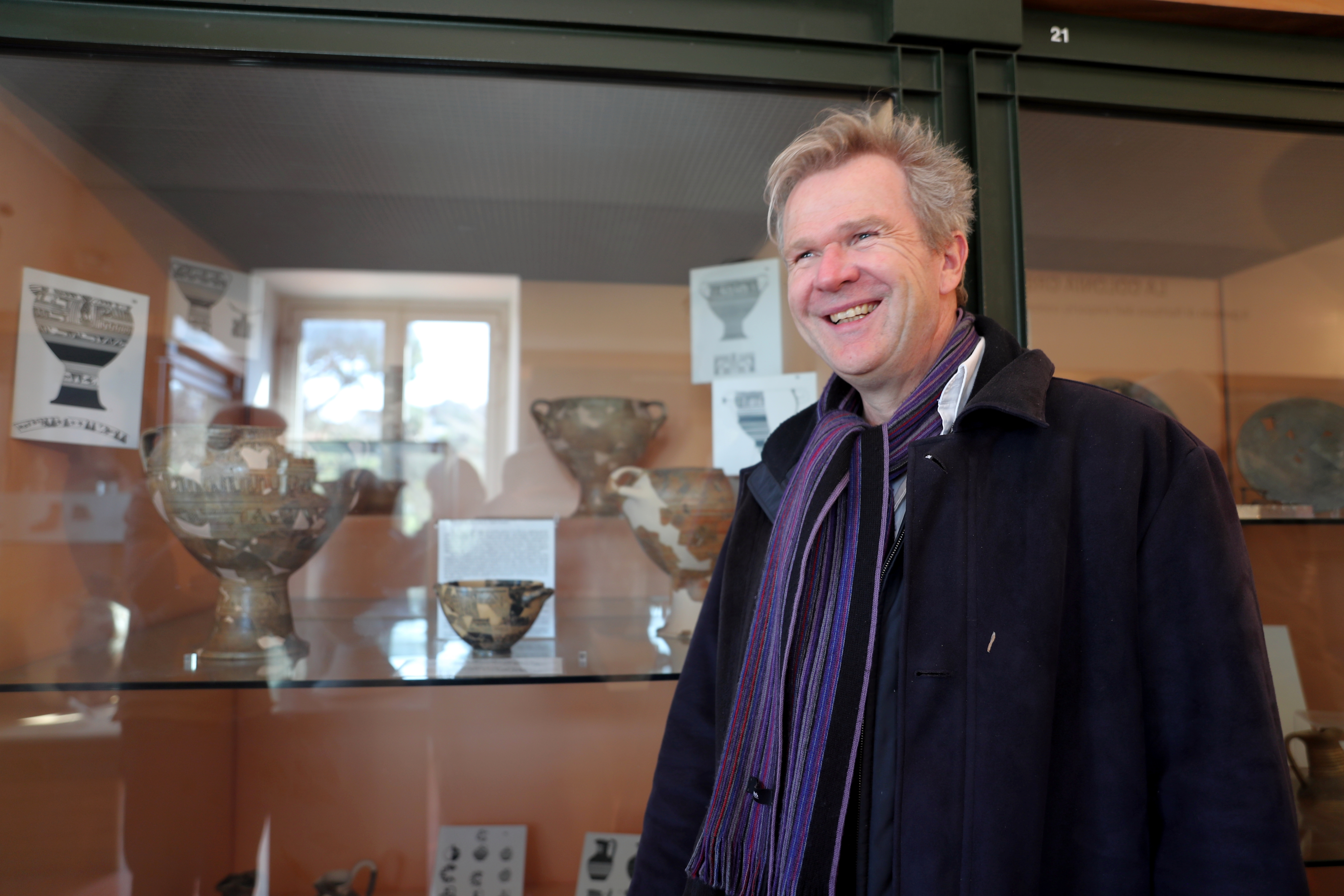 Classical scholar Jens Holzhausen beside the Nestor's cup at Ischia.